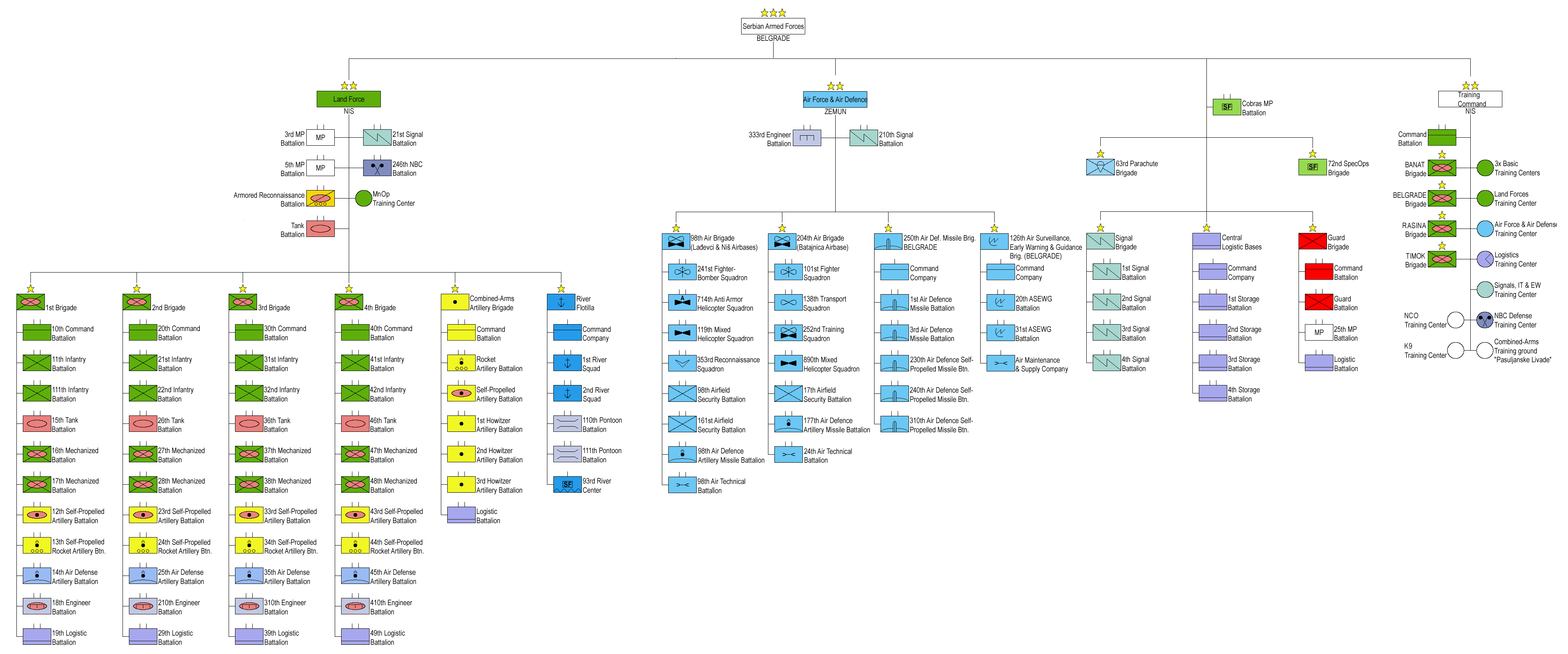 New Structure of the Armed Forces of Serbia 2007